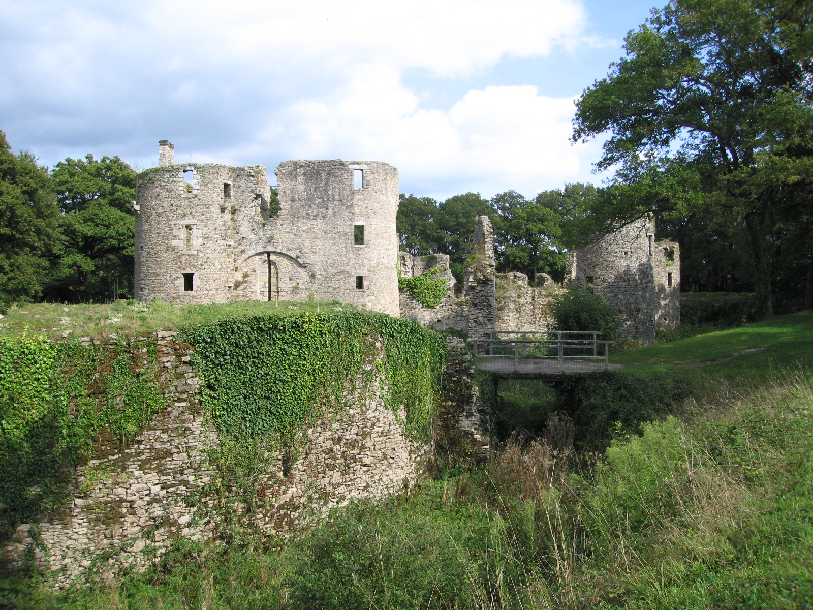 Access to the castle of Ranrouët, Herbignac, France. The Barbican is hiding the main entrance.